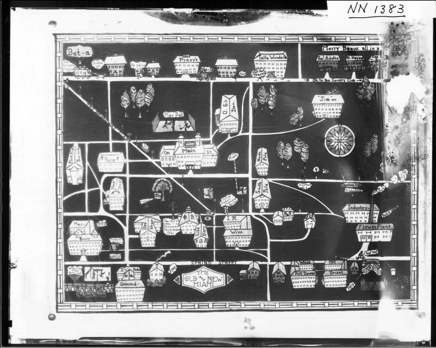 Persistent URL: Subject (TGM): Humorous pictures; Satires (Visual works); Drawings; Illustrations; Maps; Reproductions; Location: Oxford, Ohio Title on map "The Old and New Miami"